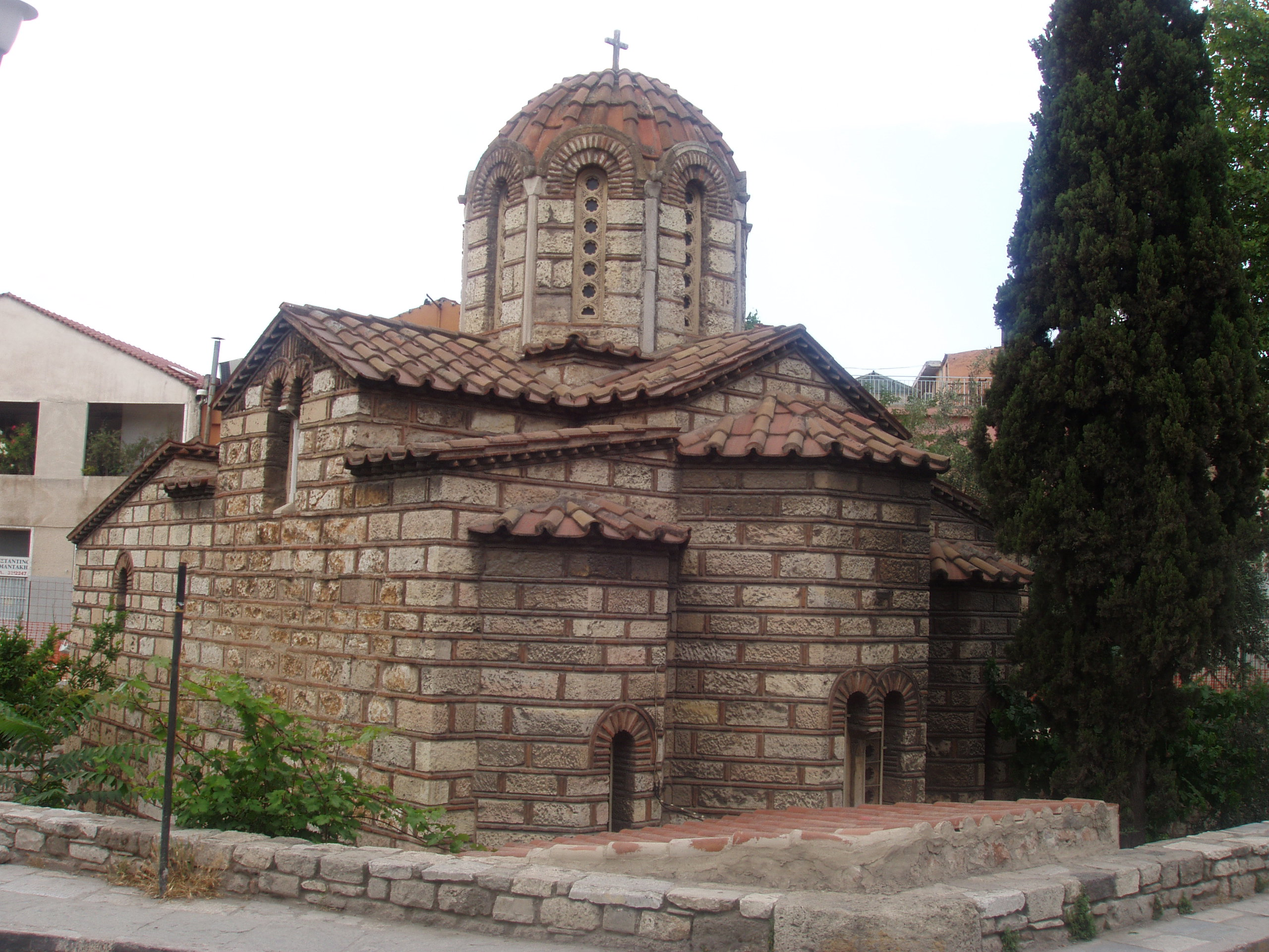 Agioi Asomatoi, Thiseio, Athens, Greece